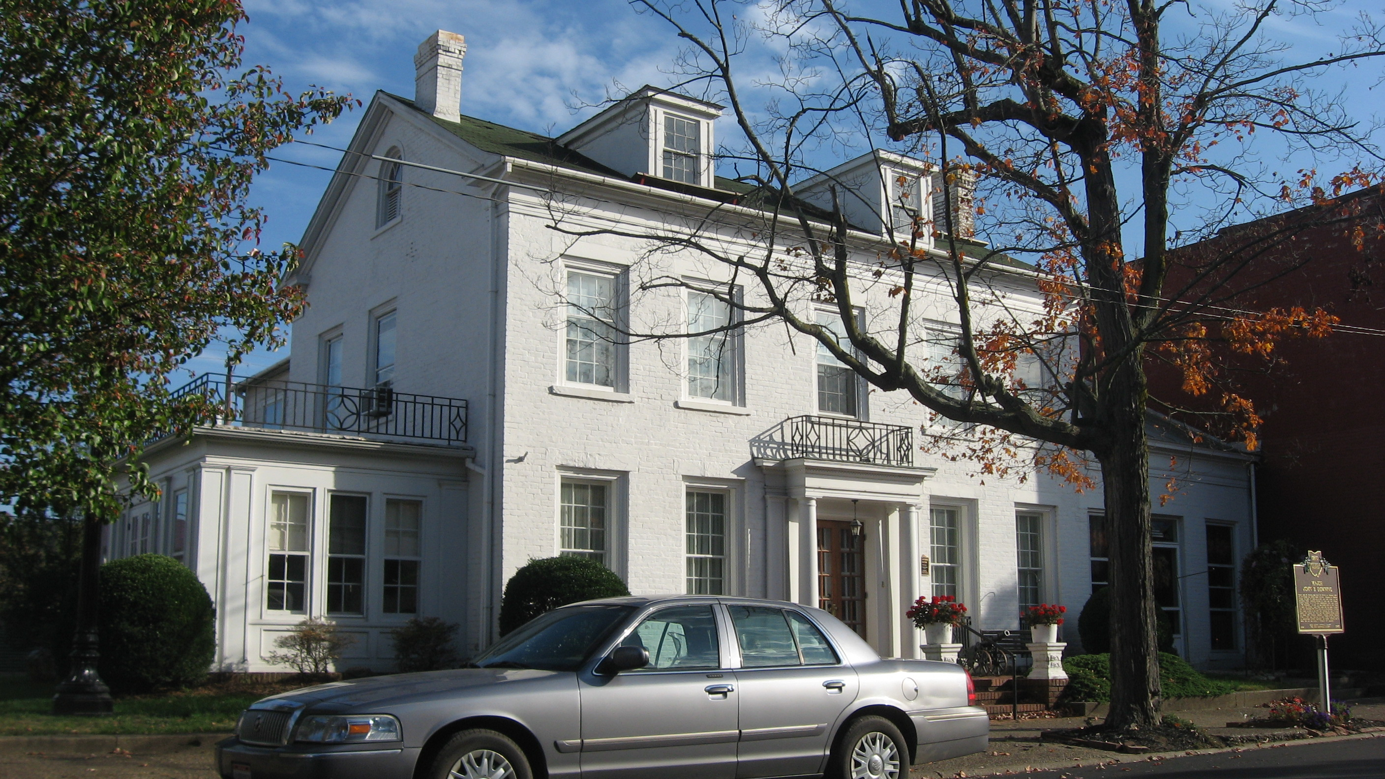 Front of the John Downing, Jr., House, located at 220-232 N. Second Avenue in Middleport, Ohio, United States. Built in 1859, it is listed on the National Register of Historic Places.